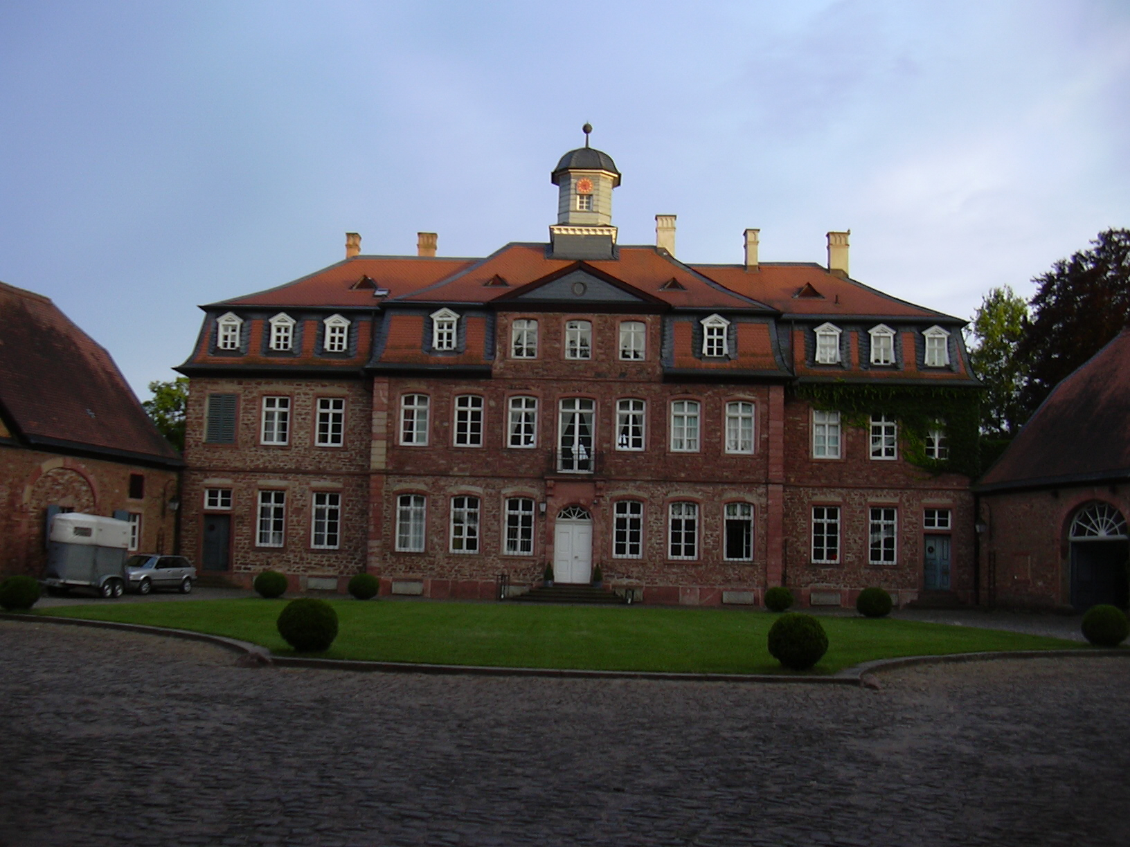 Emmerichshofen Castle, near Kahl/Main, Bavaria/Germany